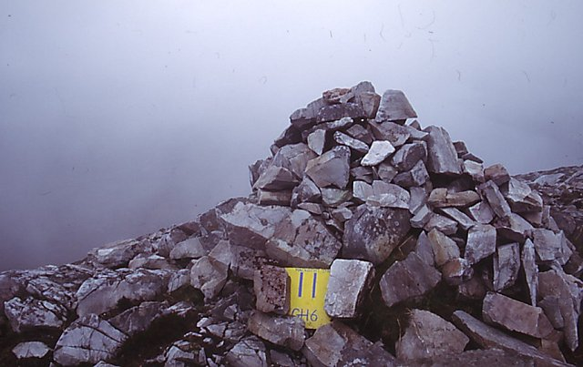 Mackoght Cairn on Mackought, a close neighbour of Errigal. Like its illustrious companion it is made of quartzite. The number is a checkpoint for the Glover Highlander challenge walk.